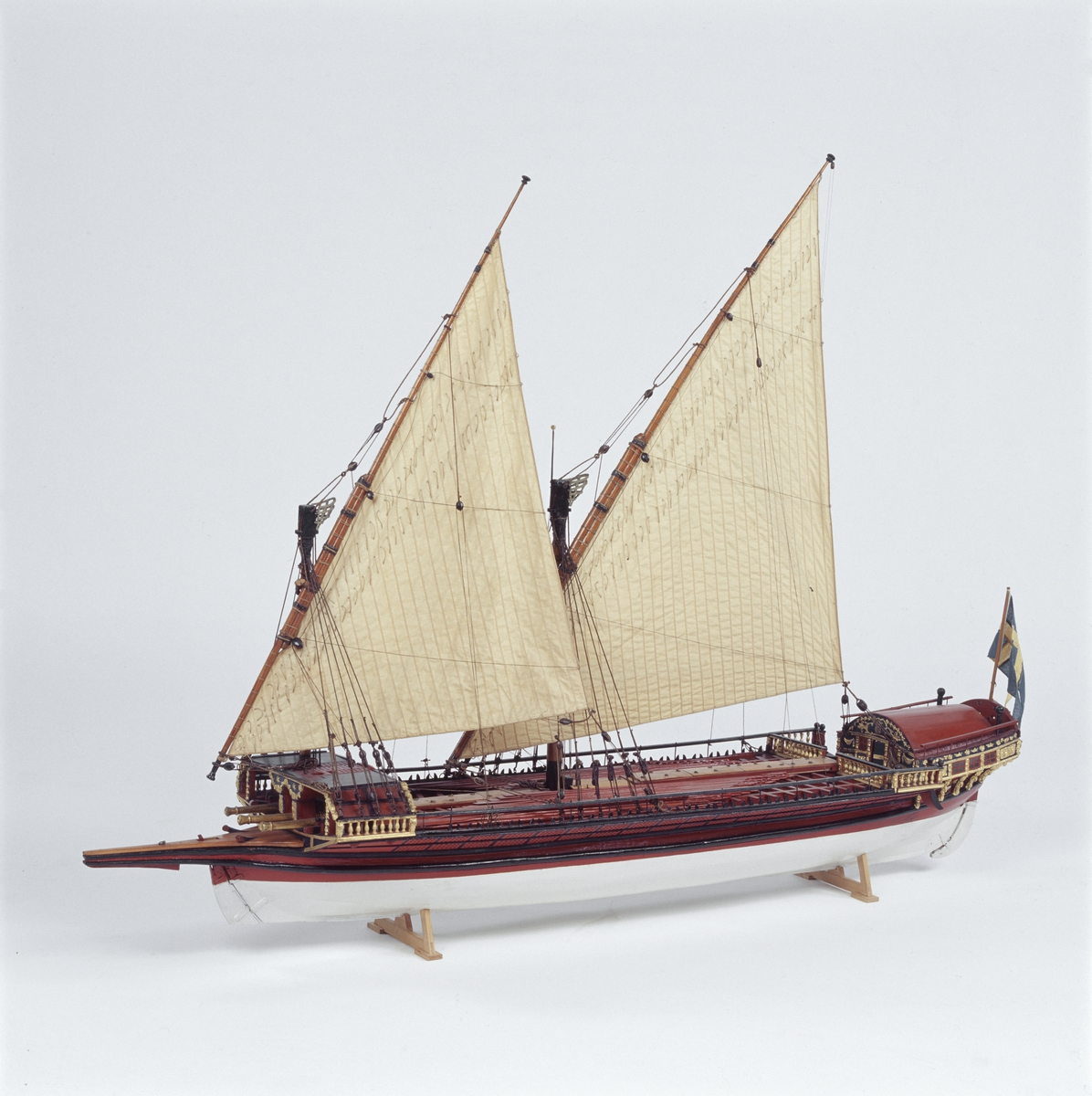 Contemporary model of a Swedish 1715 galley from the collections of the Maritime Museum in Stockholm